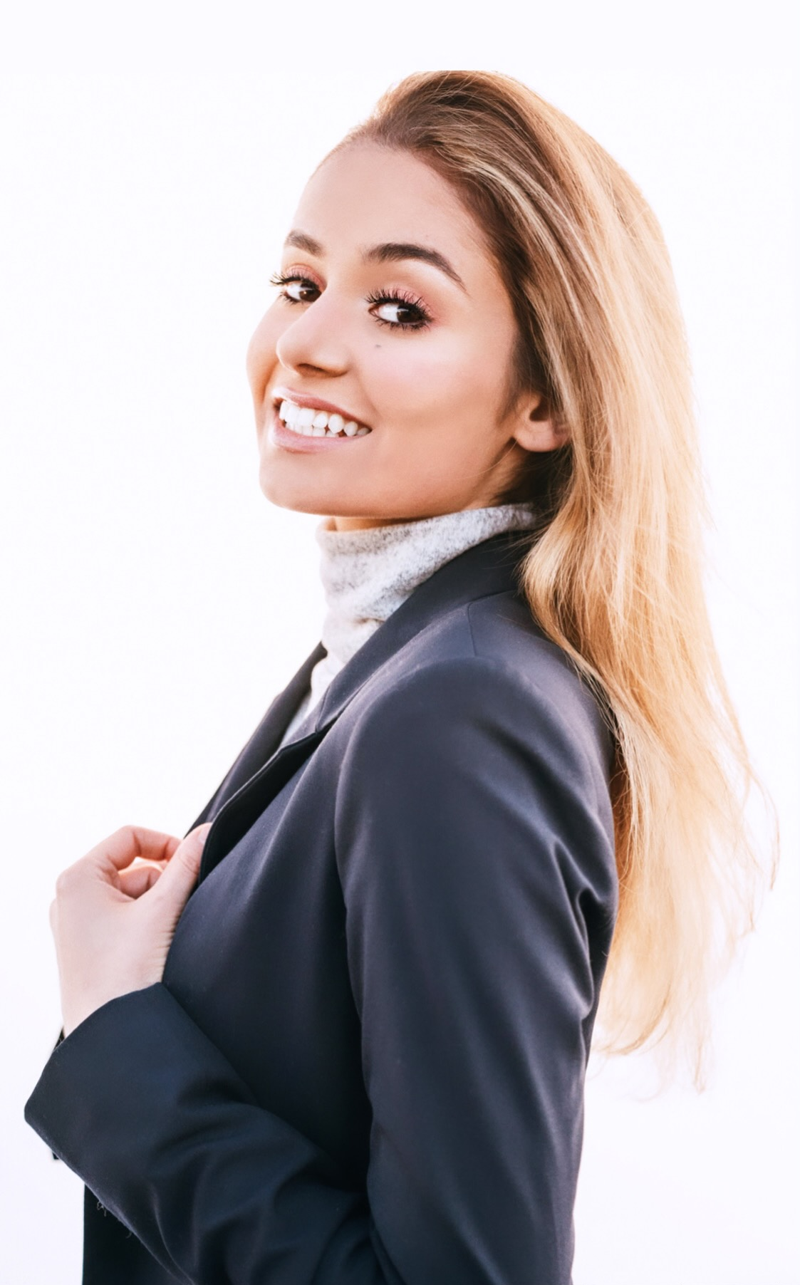 Headshot of Sophia Kianni